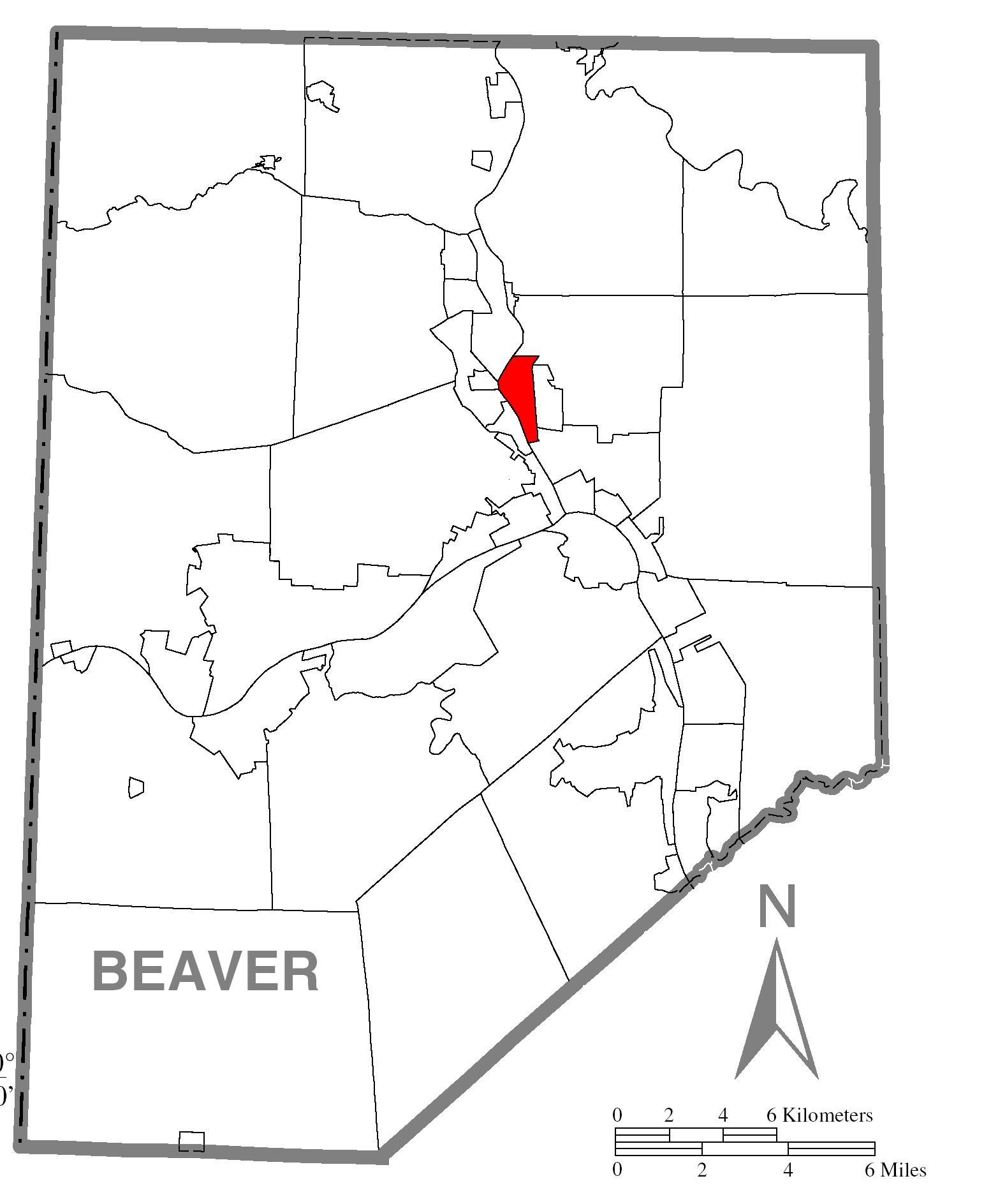 A map of Beaver County showing New Brighton, Pennsylvania (alternate) highlighted on the map.